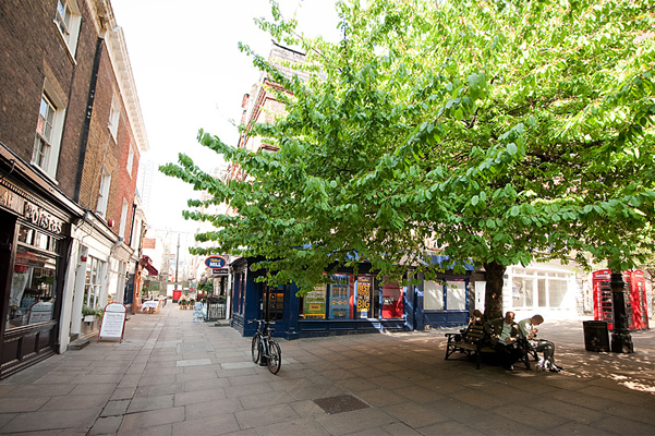 Shepherd Market, Mayfair, London W1J